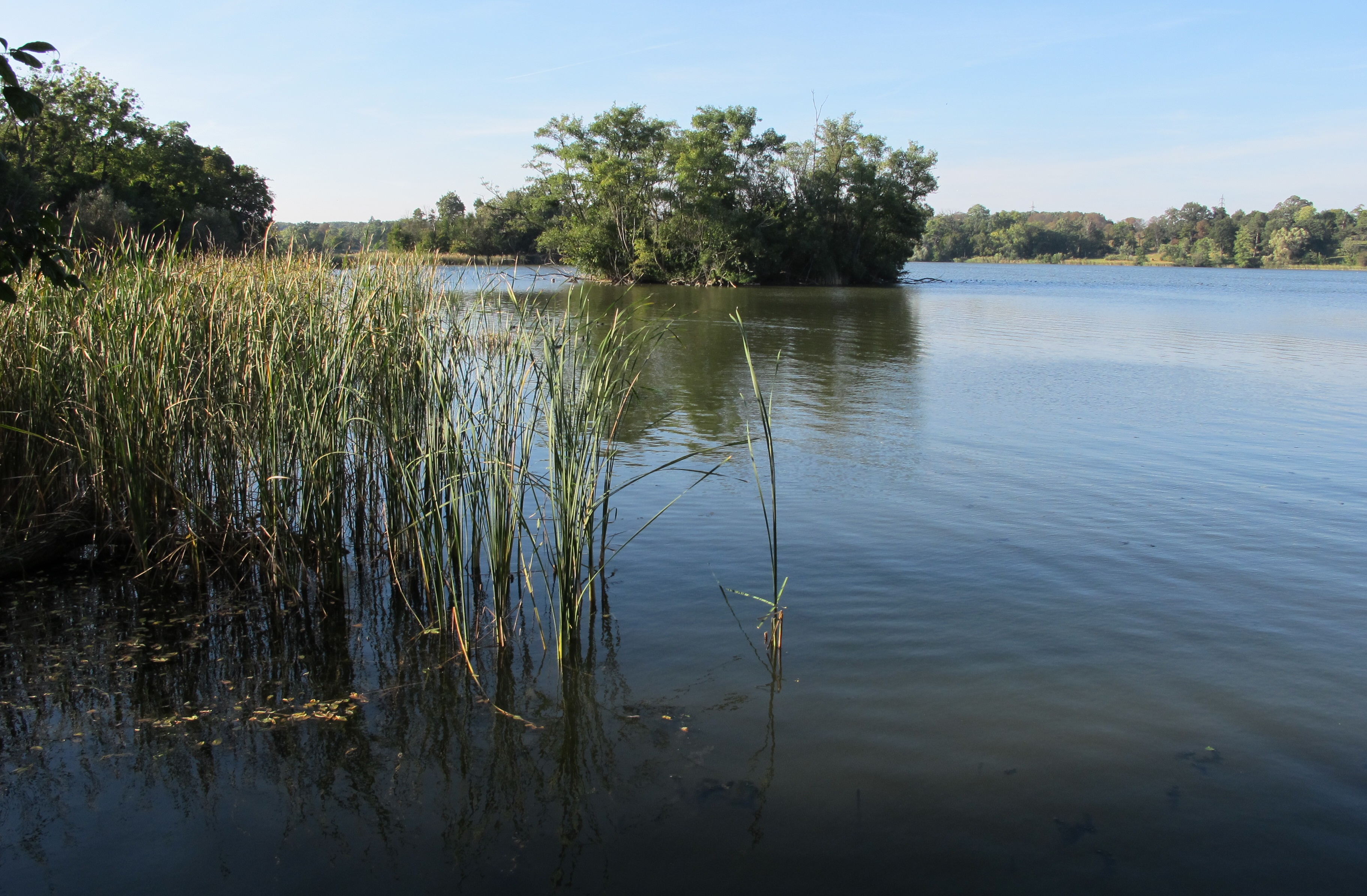 Mlýnský rybník pond in natural nature reserve Lednické rybníky, Břeclav District